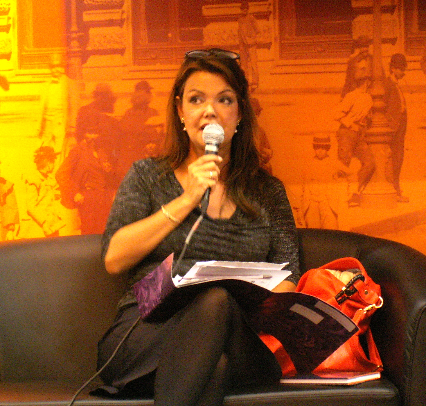 At the Göteborg Book Fair 2015.